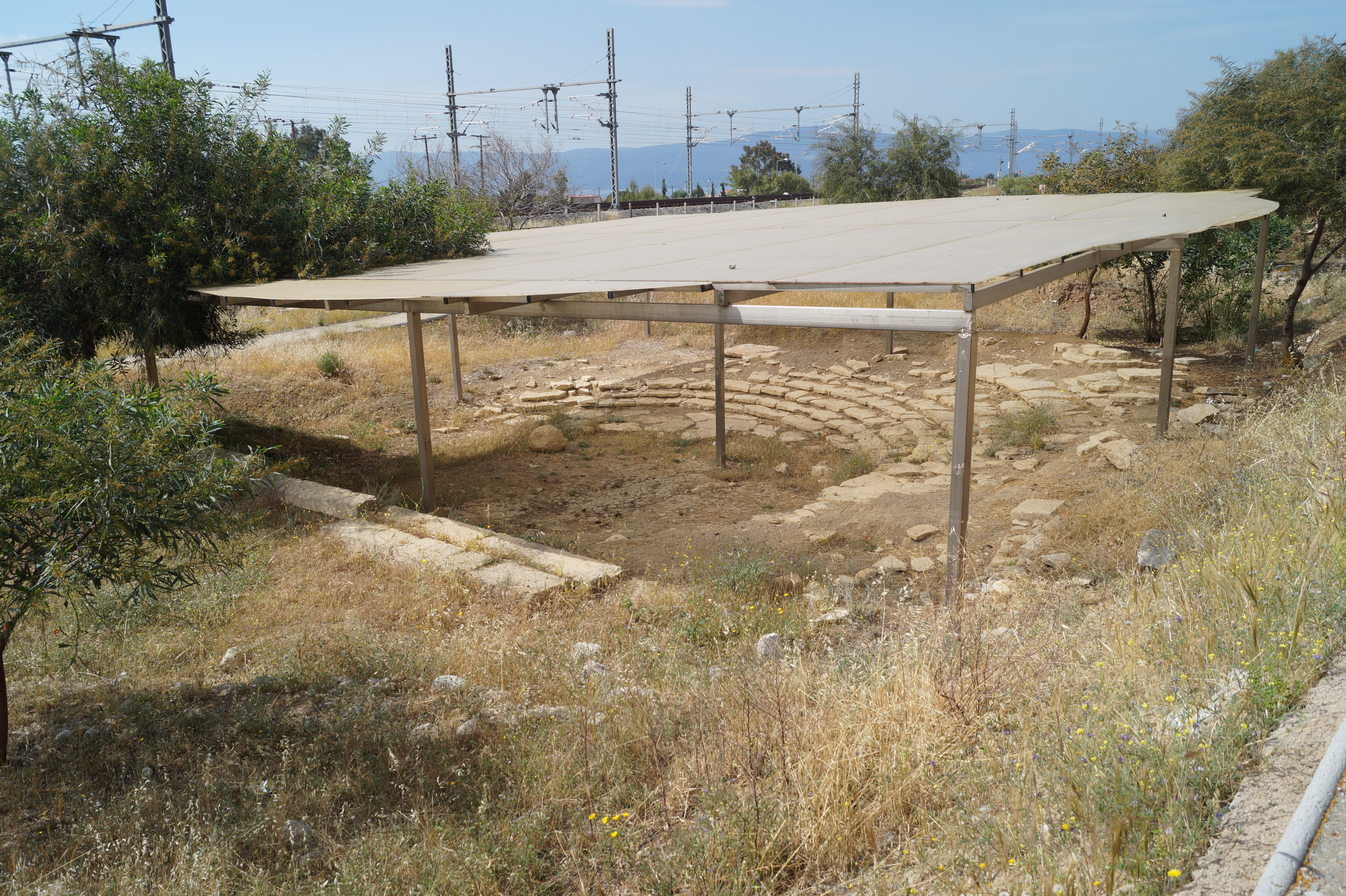 Krommyon, Agioi Theodoroi, Greece: Late archaic theatre (Bouleuterion)